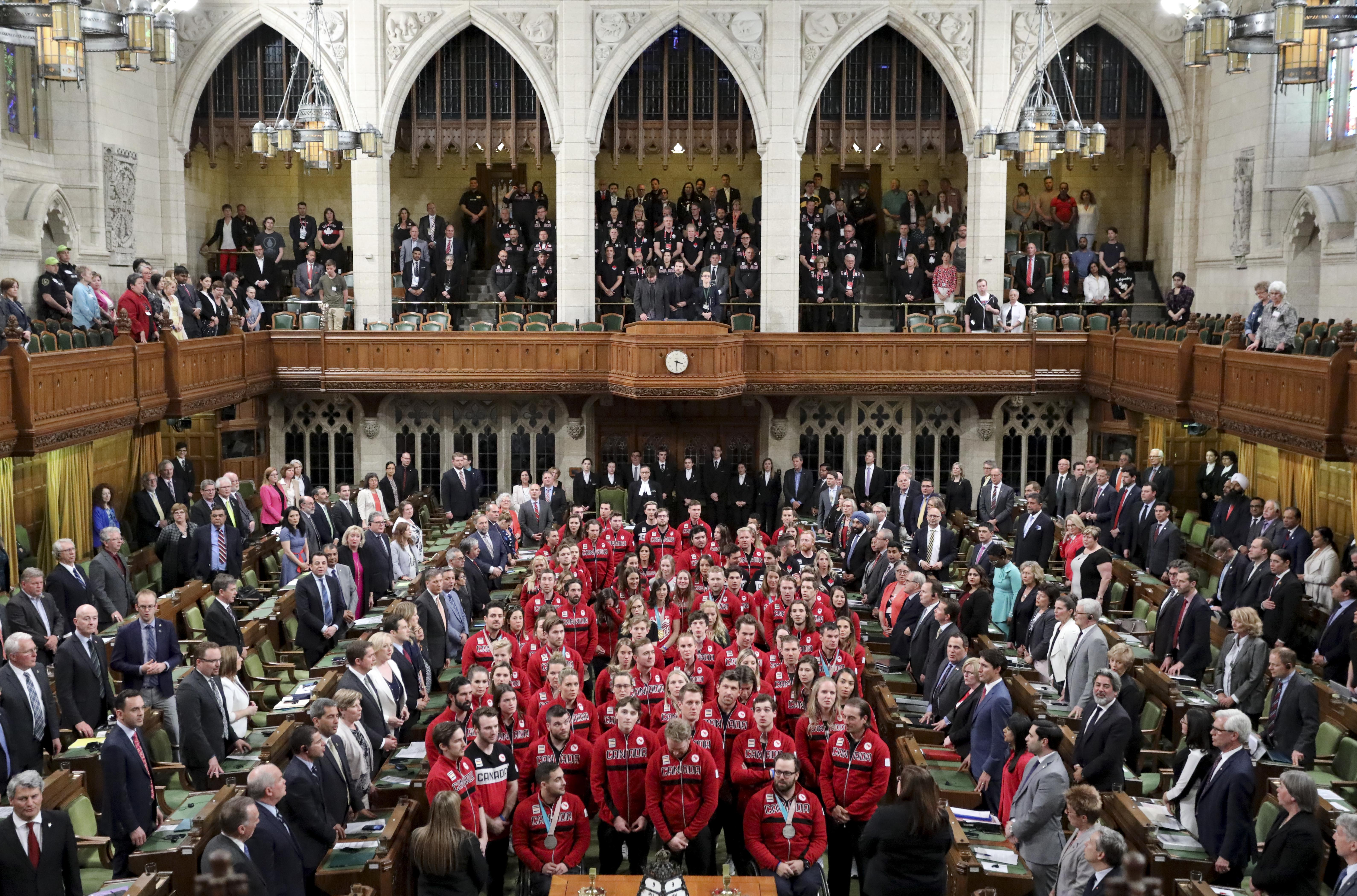 Great to have Canadian Paralympic and Olympic athletes from Pyeong Chang in the House of Commons today. You have made Canada proud.